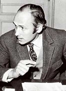 Argentine trade union leader Jorge Di Pascuale (b. 1930), kidnapped, tortured and killed by the military dictatorship in 1976. Di Pascuale was very influential in the development of the left wing of the Peronist movement during the 60's and 70's. El dirigente sindical argentino Jorge Di Pascuale (n. 1930), secuetrado, torturado y asesinado por la dictadura militar en 1976. Di Pascuale tuvo gran influencia en el desarrollo de la izquierda peronista durante las décadas de 1960 y 1970.